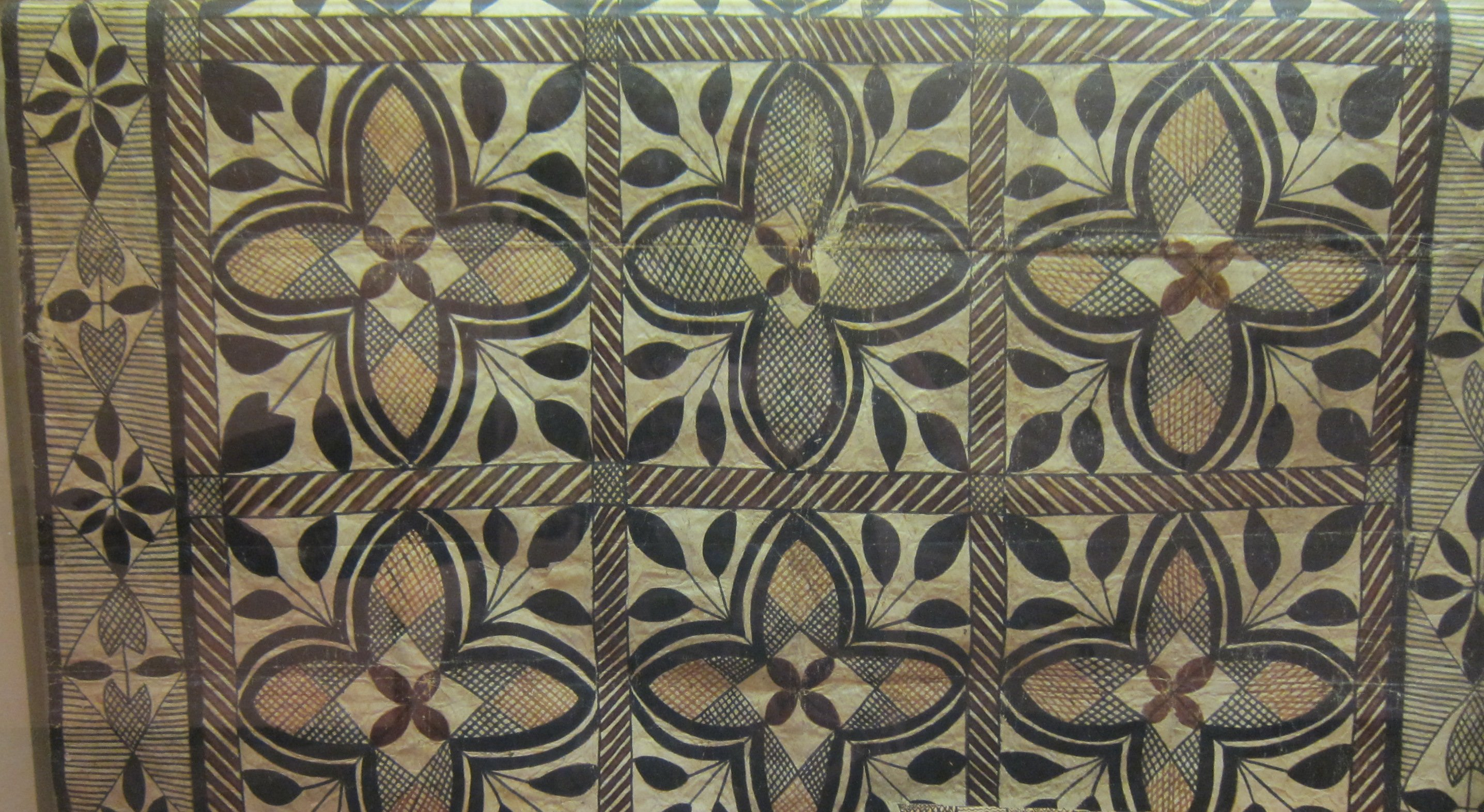 Saipo (bark cloth), Samoa, Tutuila, Leone Village, 1911, Honolulu Academy of Arts